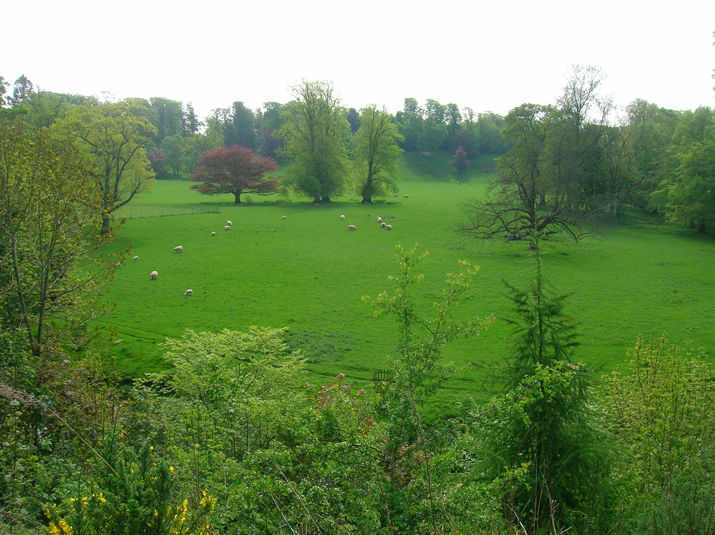 A view of Annick Holm, Irvine, Ayrshire, Scotland